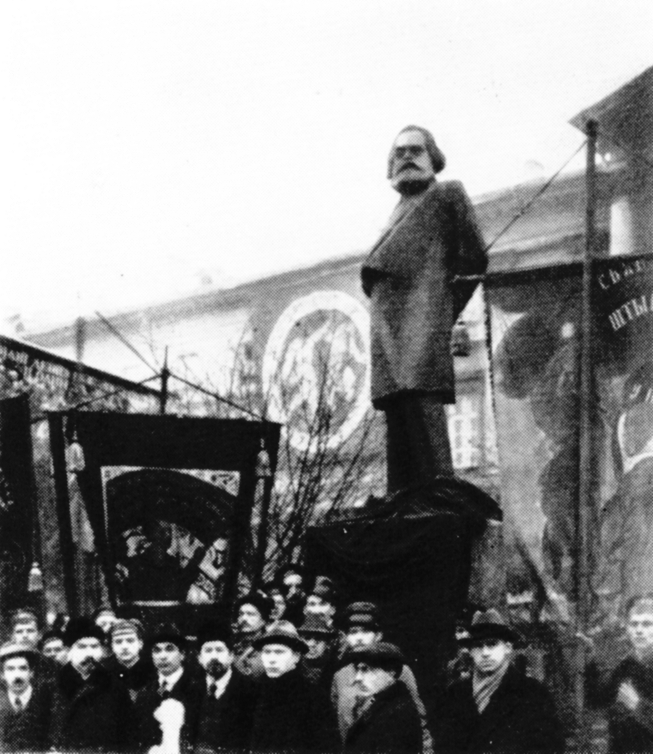 A. Matveev. Relevation of Marx's monument in Petrograd.